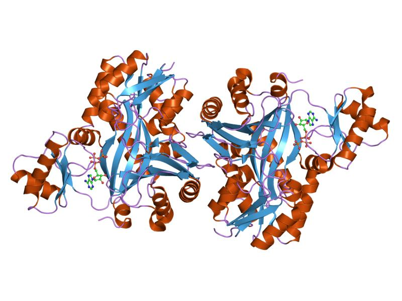 Cartoon representation of the molecular structure of protein registered with 1dv2 code.